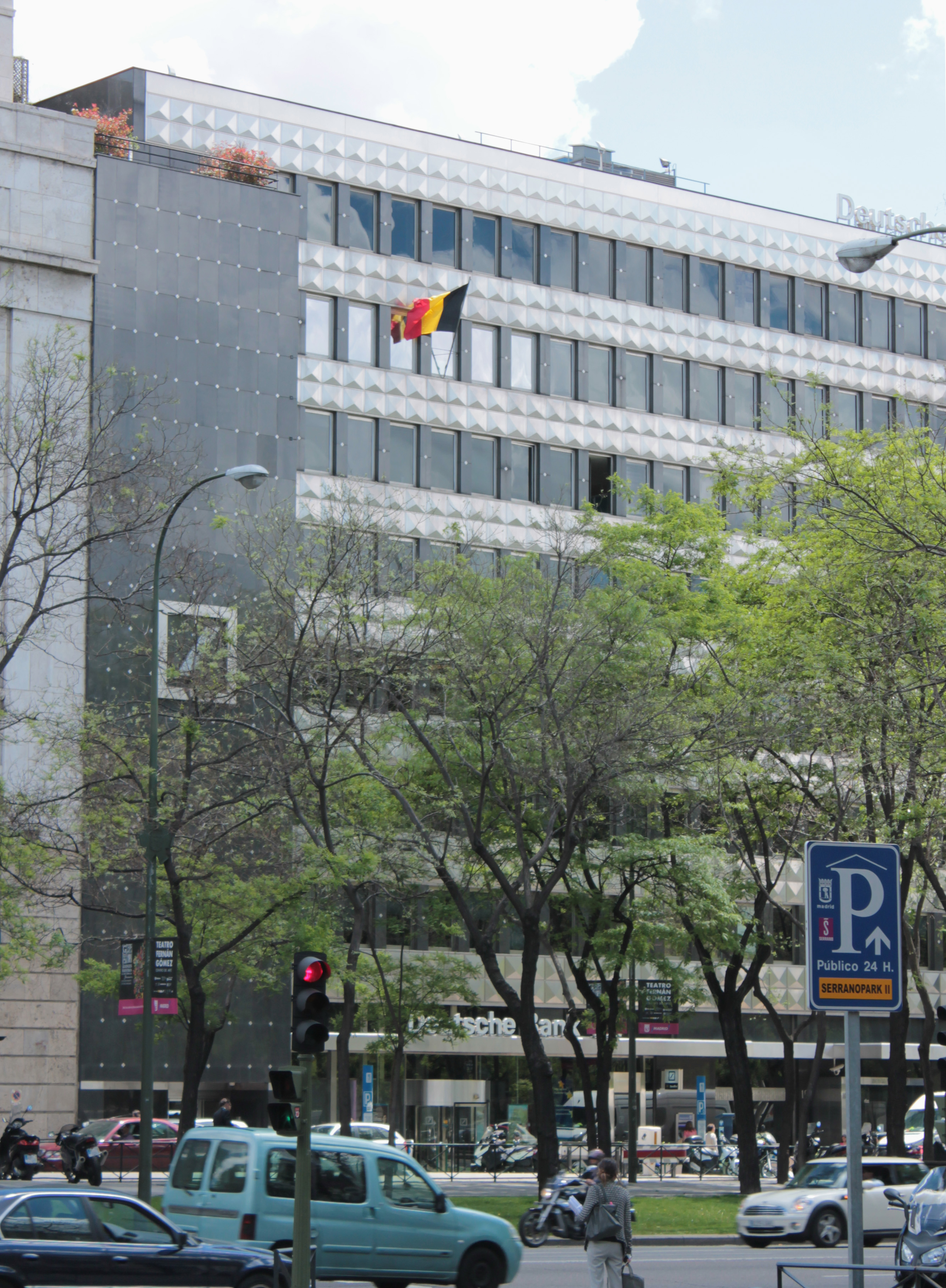 Façade of the building at 18 Paseo de la Castellana (avenue) in Madrid (Spain). On the 6th floor there is the Belgian Embassy.